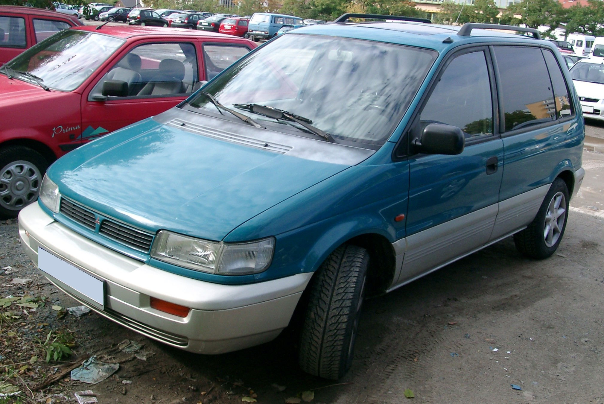 Mitsubishi Space Runner